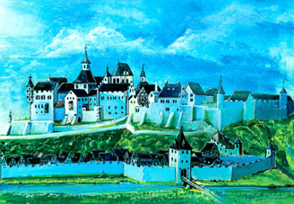 Siegburg, Germany around 1600